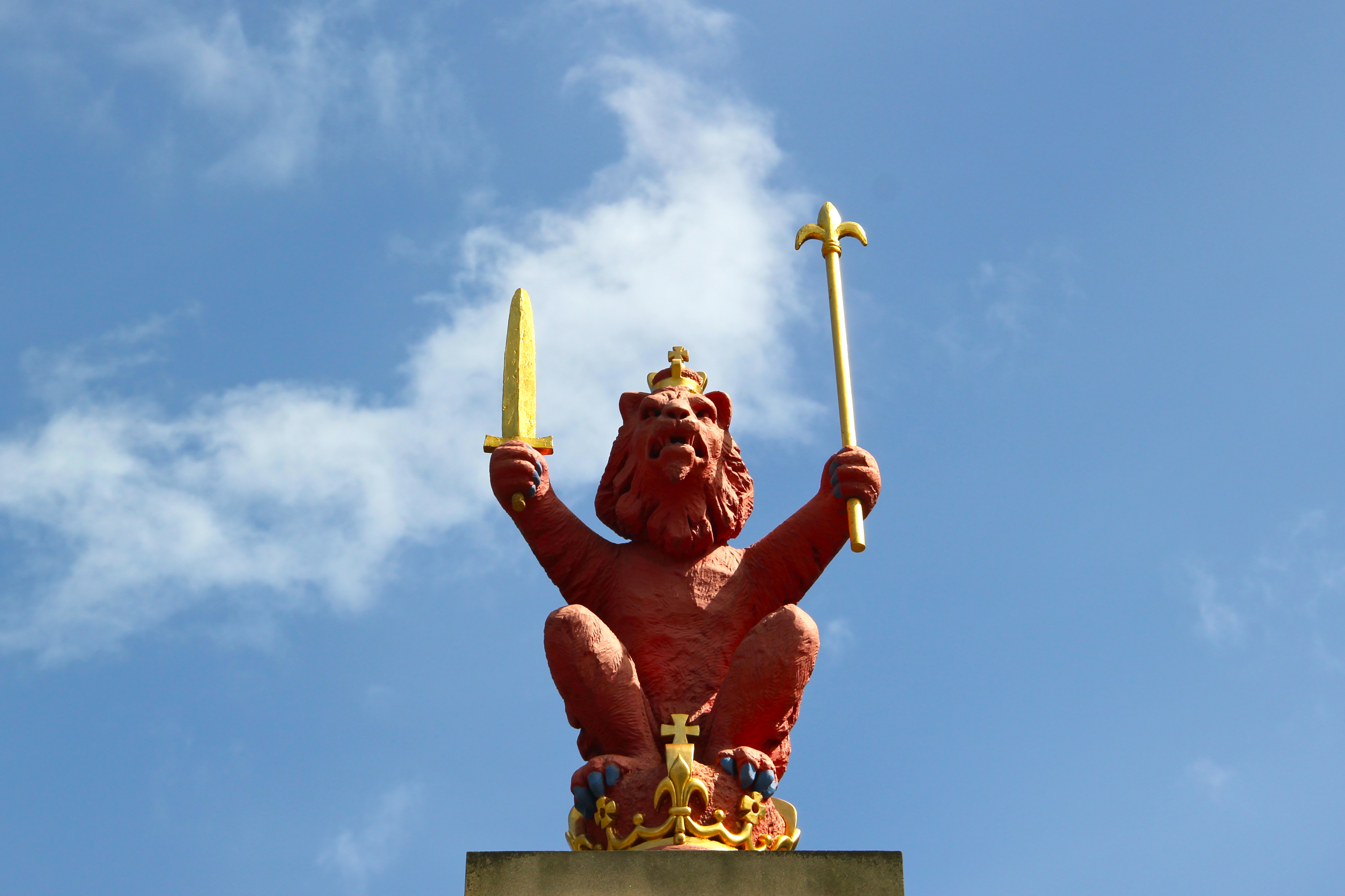 The red lion above the entrance of the Queen's Gallery, carved in limestone was designed by Jill Watson based on a small red lion located at the feet of Mary, Queen of Scots on her tomb in Westminster Abbey.